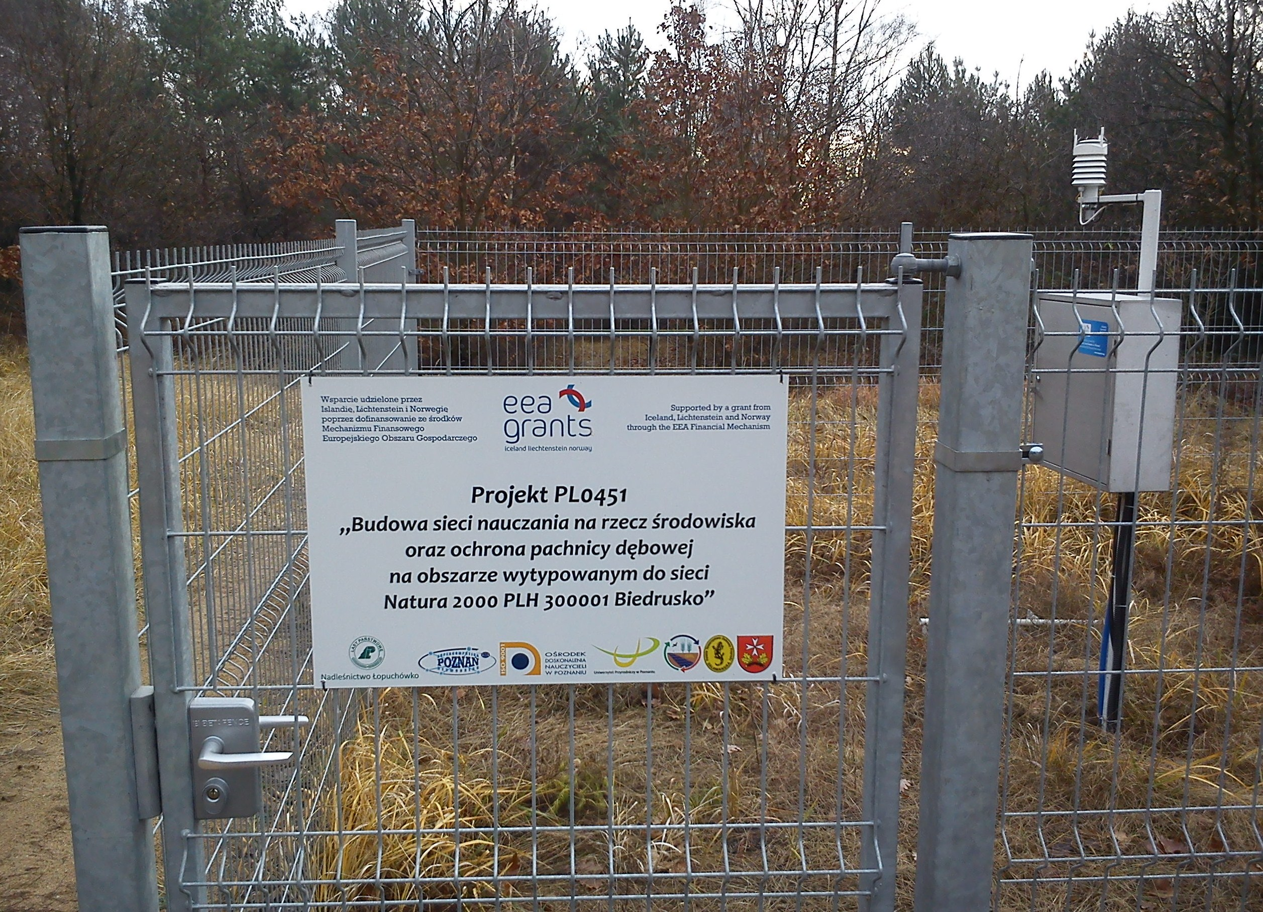 Osmoderma eremita - the area of species protection. Dziewicza Góra.